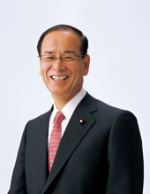 Katsumasa Suzuki was the Senior Vice-Minister for Internal Affairs and Communications on January, 2011.